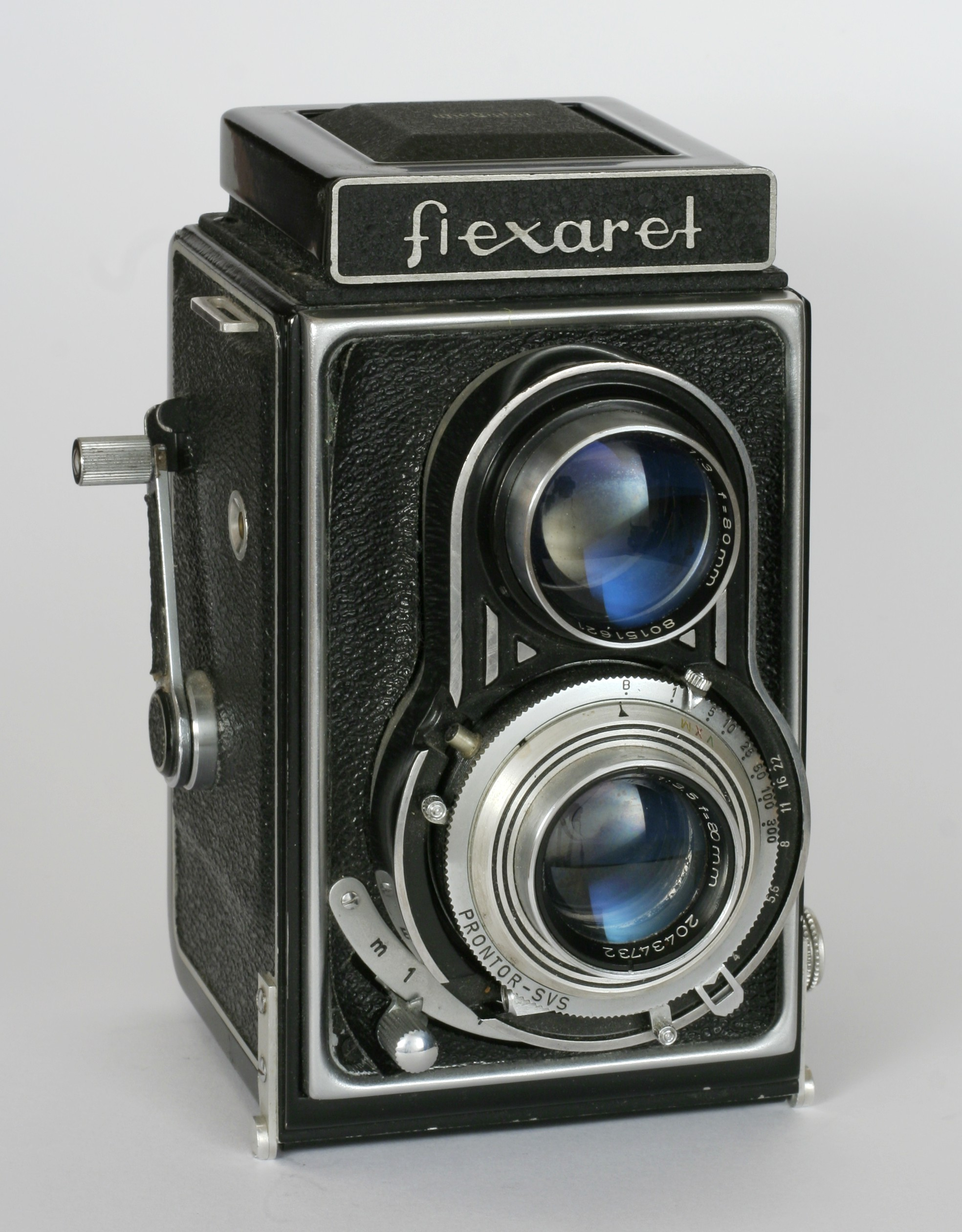 Antique Camera Flexaret III